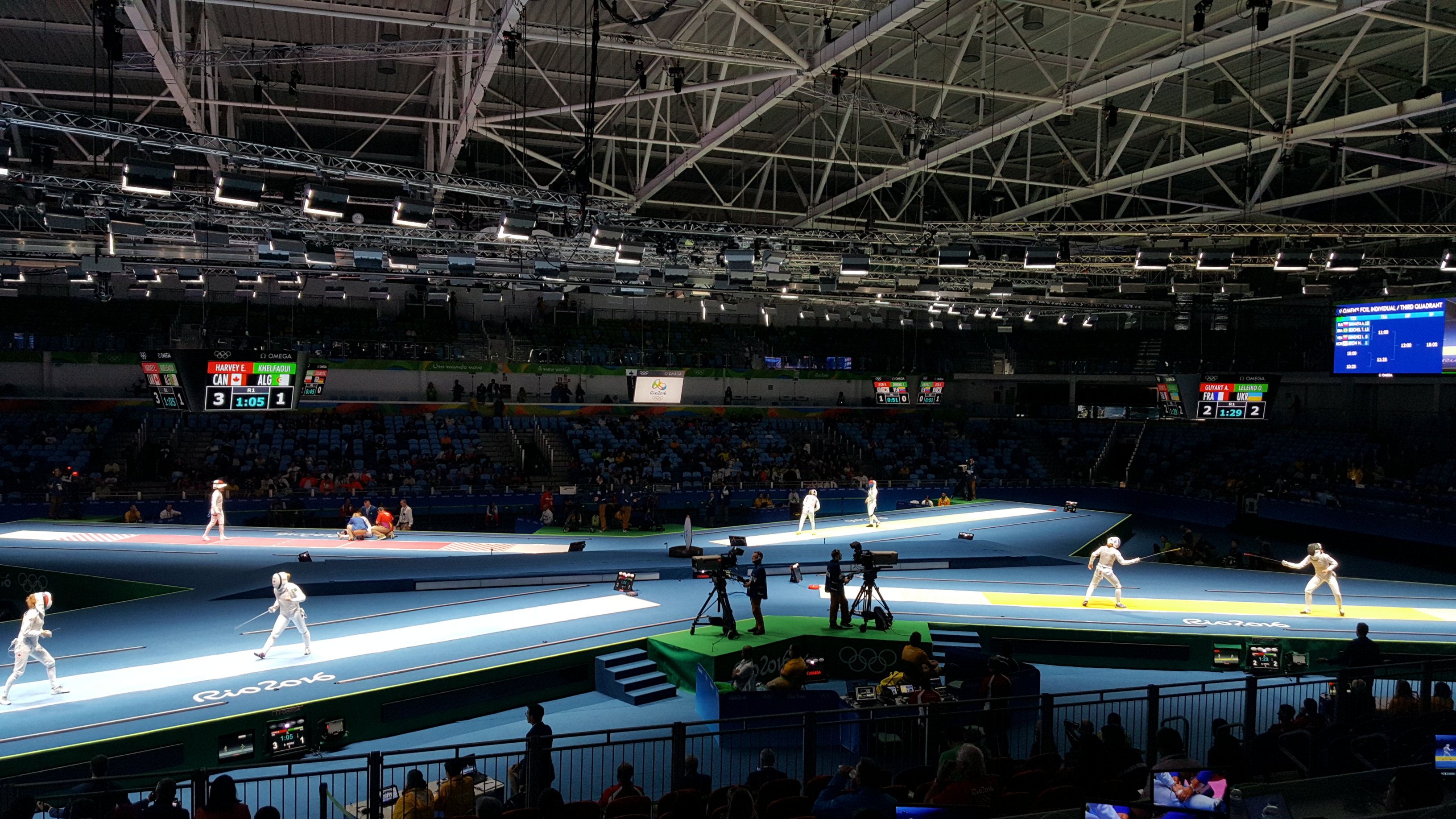 Fencing (6)